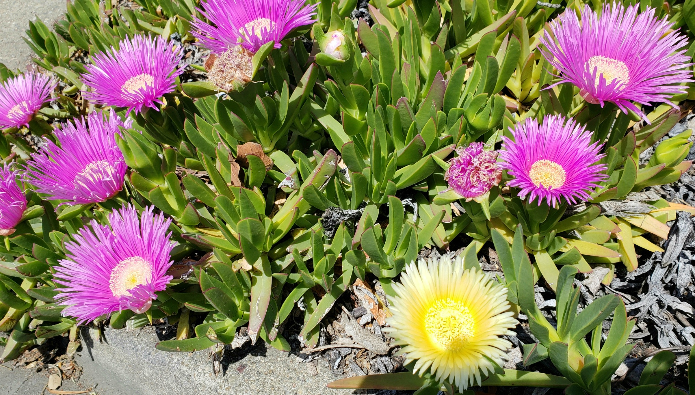 Purple and yellow flowering ice plants found along a sidewalk in Cupertino, California, April 2018.